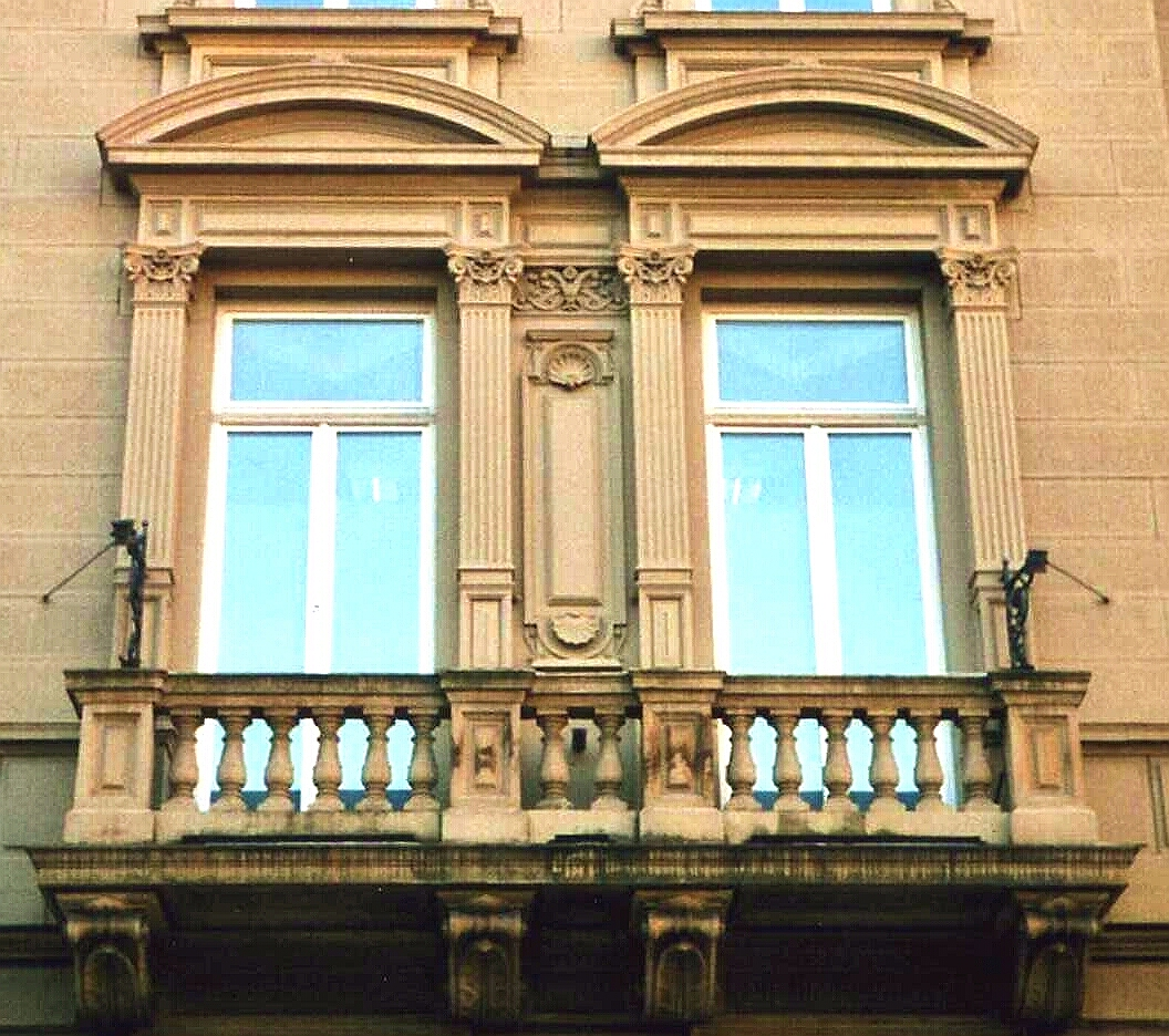 Heilbronn